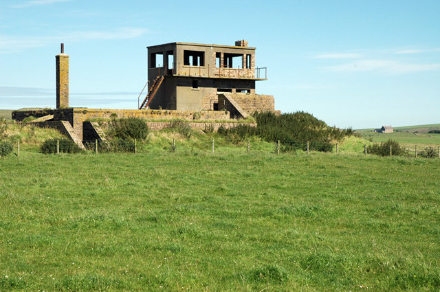 Old wartime relics at Twatt aerodrome The air base was operated by the Navy.